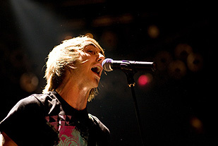 All Time Low, Chicago, Tourzilla, 2007